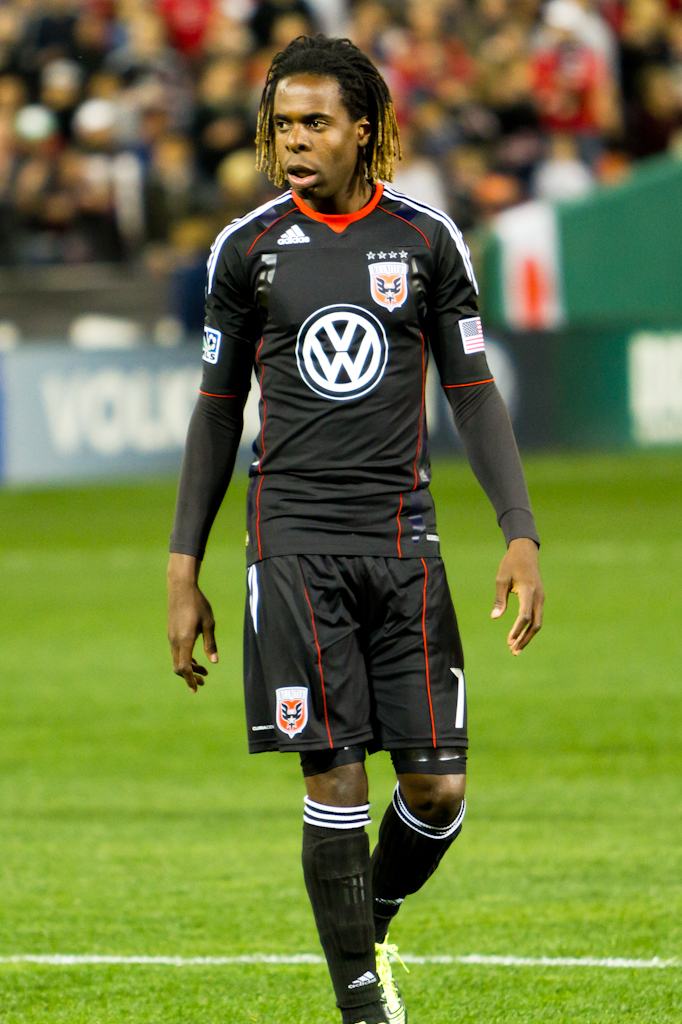 D.C. United forward, Joseph Ngwenya during a regular season match against the Columbus Crew on March 19, 2011 at RFK Stadium in Washington, D.C..